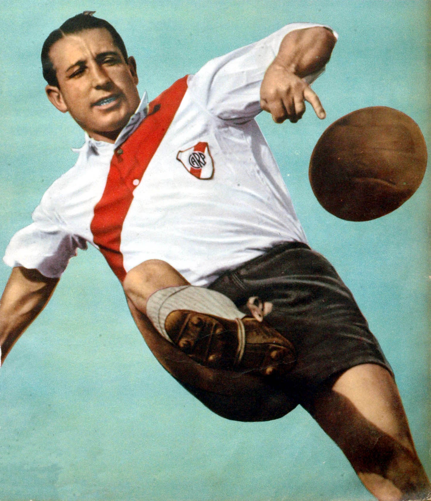 Argentine centre-back footballer José María Minella playing for CA River Plate, in 1941.